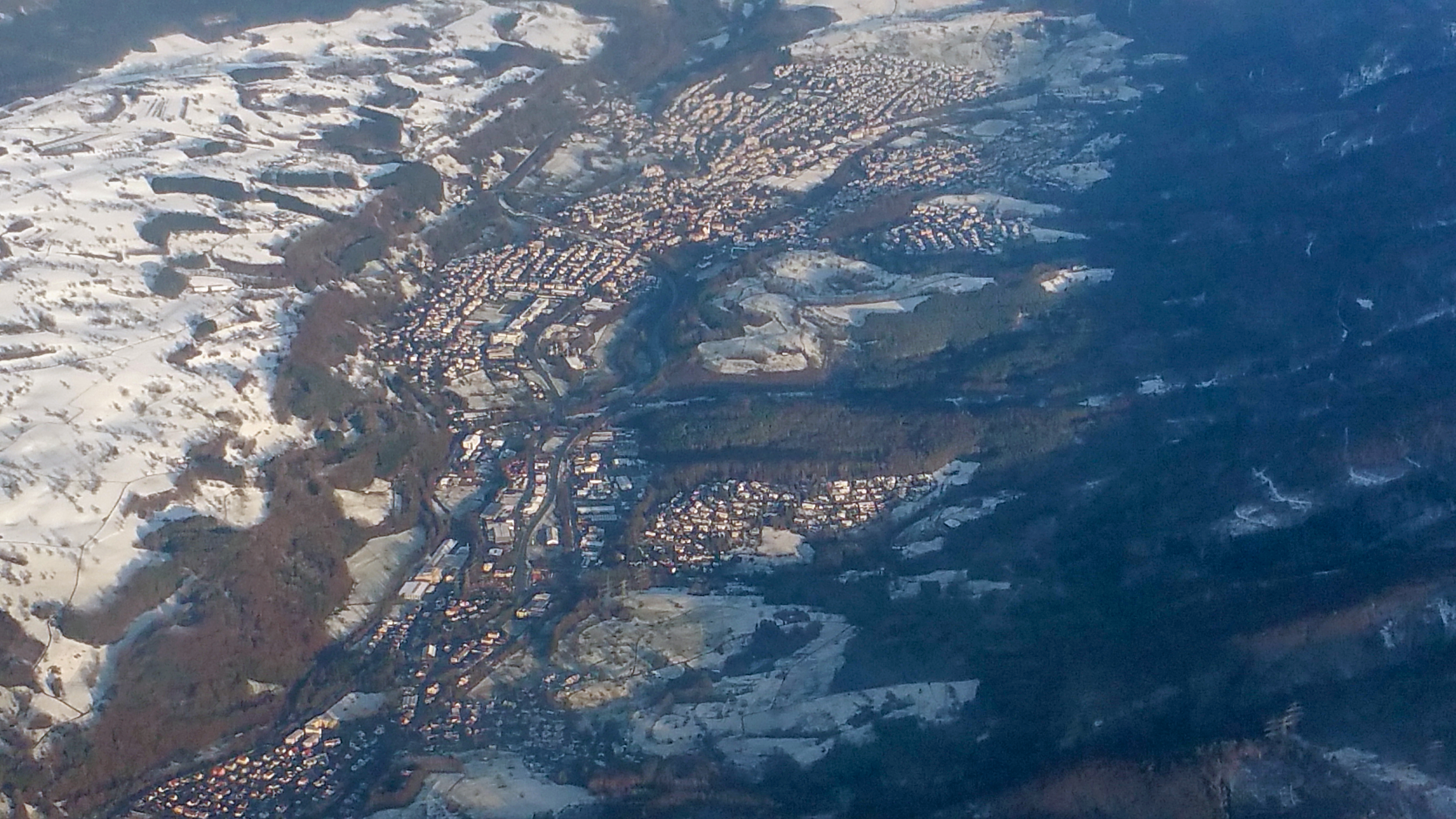 Germany, approach into ZRH across the Black Forest